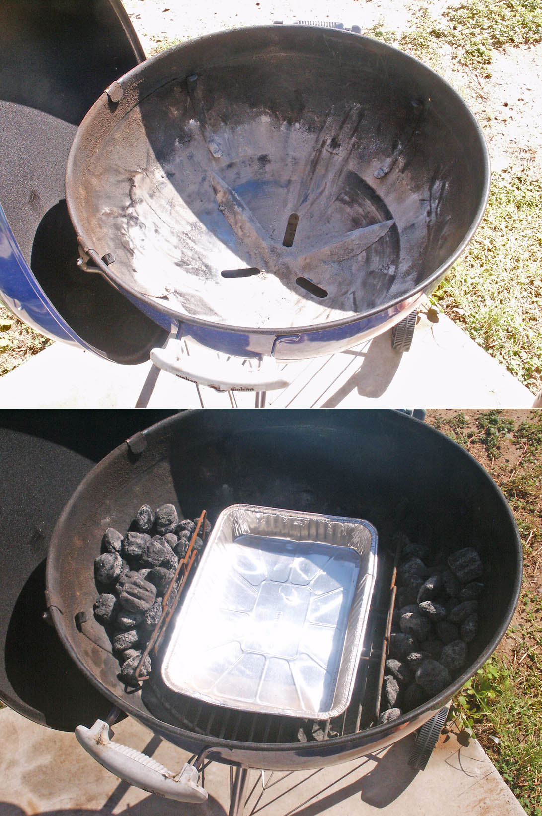 Photographs displaying the bottom venting and ash removal assembly on a Weber brand kettle grill, as well as a kettle grill set up for indirect cooking.